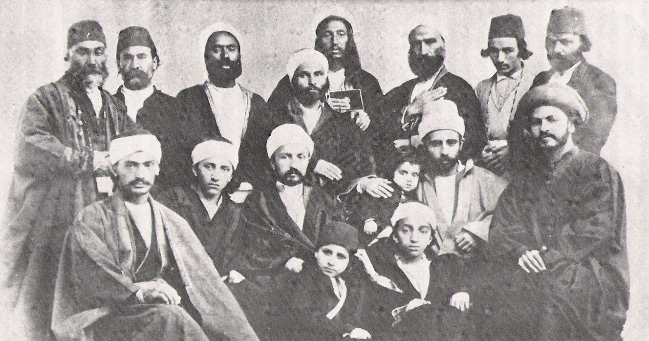 Scanned in from page 242 of: Caption reads: "`Abdu'l-Baha in Adrianople with His brothers and companions of Baha'u'llah. Standing (L. to R.): Mirza Muhammad-`Aliy-i-Nahri, Mirza Nasru'llah-i-Tafrishi, Nabil-i-A`zam, Mirza Aqa Jan (Khadimu'llah), Mishkin-Qalam, Mirza `Aliy-i-Sayyah, Aqa Husayn-i-Ash'chi, and Aqa `Abdu'l-Ghaffar-i-Isfahani. Seated (L. to R.): Mirza Muhammad-Javad-i-Qazvini, Mirza Mihdi (the Purest Branch), `Abdu'l-Baha', Mirza Muhammad-Quli (with, presumably, one of his children), and Siyyid Mihdi-i-Dahiji. Seated on the ground (L. to R.): Majdi'd-Din (Son of Mirza Musa, Aqay-i-Kalim) and Mirza Muhammad-`Ali (half-brother of `Abdu'l-Baha)." Category:Pictures of Bahá'í individuals